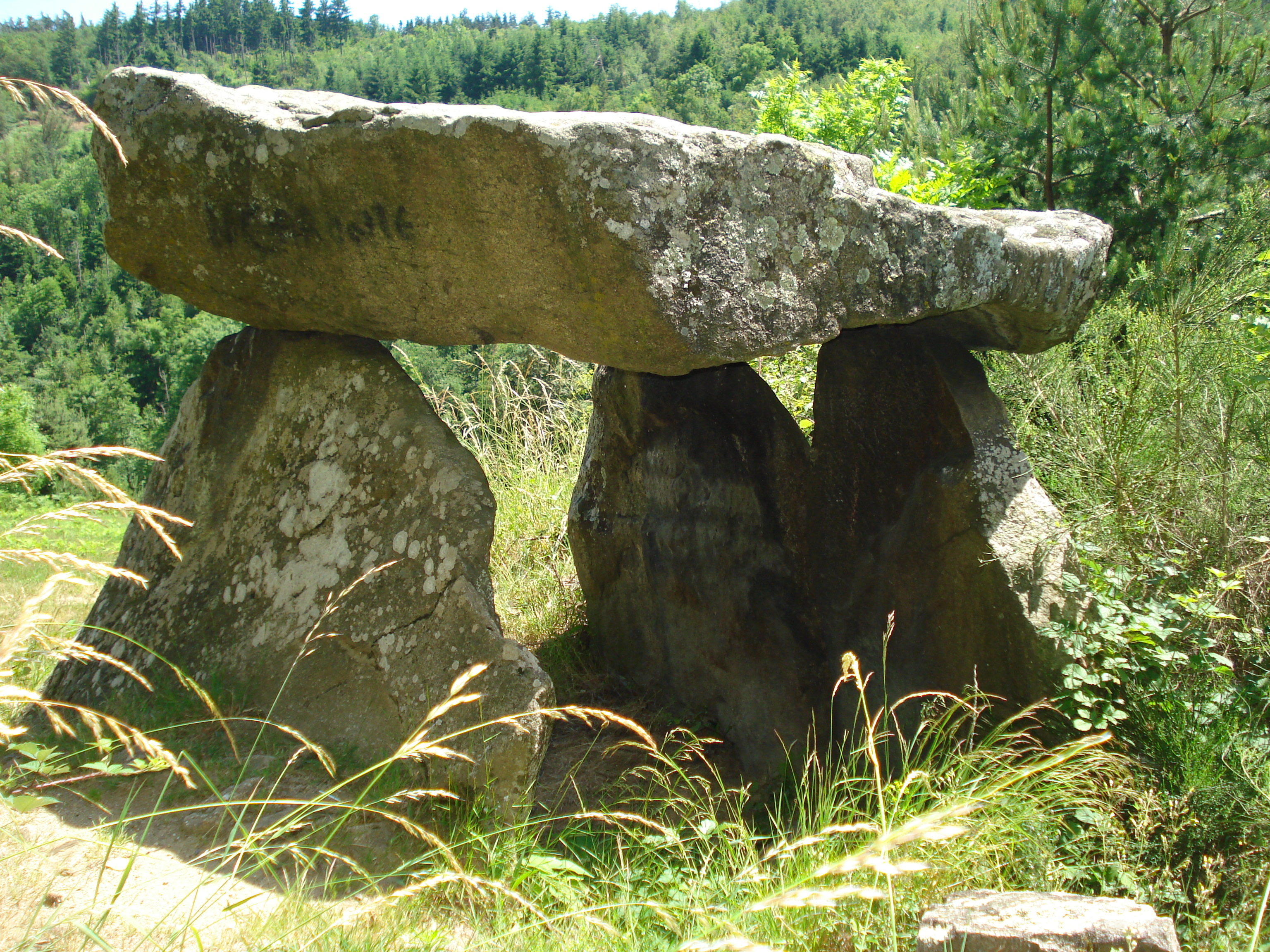 Luriecq (Loire, Fr), the dolmen